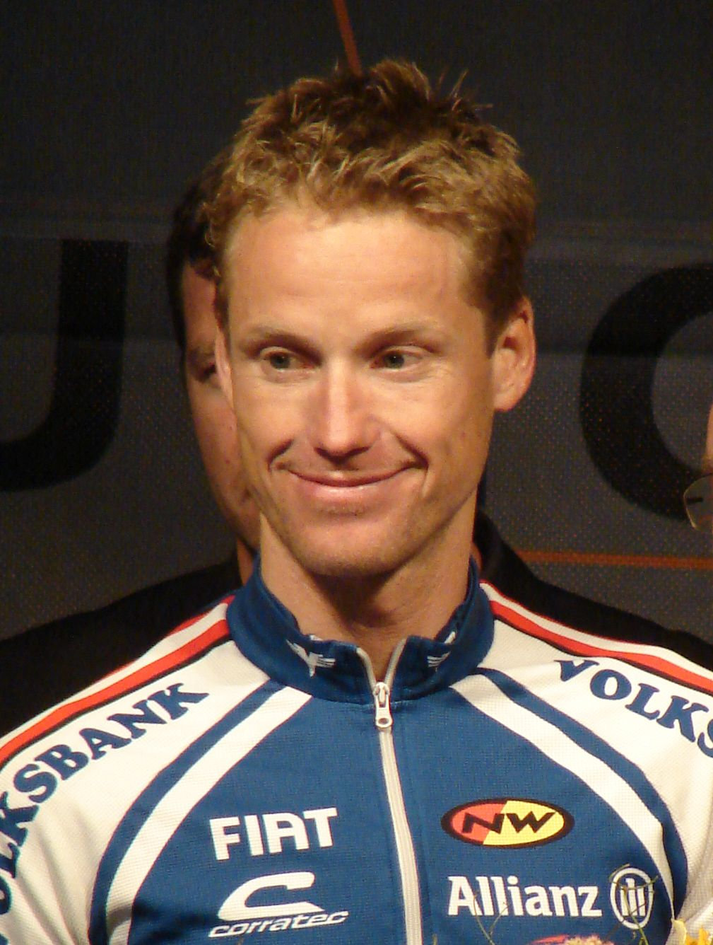 Austrian bicycle racer Gerrit Glomser during the "Nightrace .07" in Waidhofen an der Ybbs on August 24, 2007.